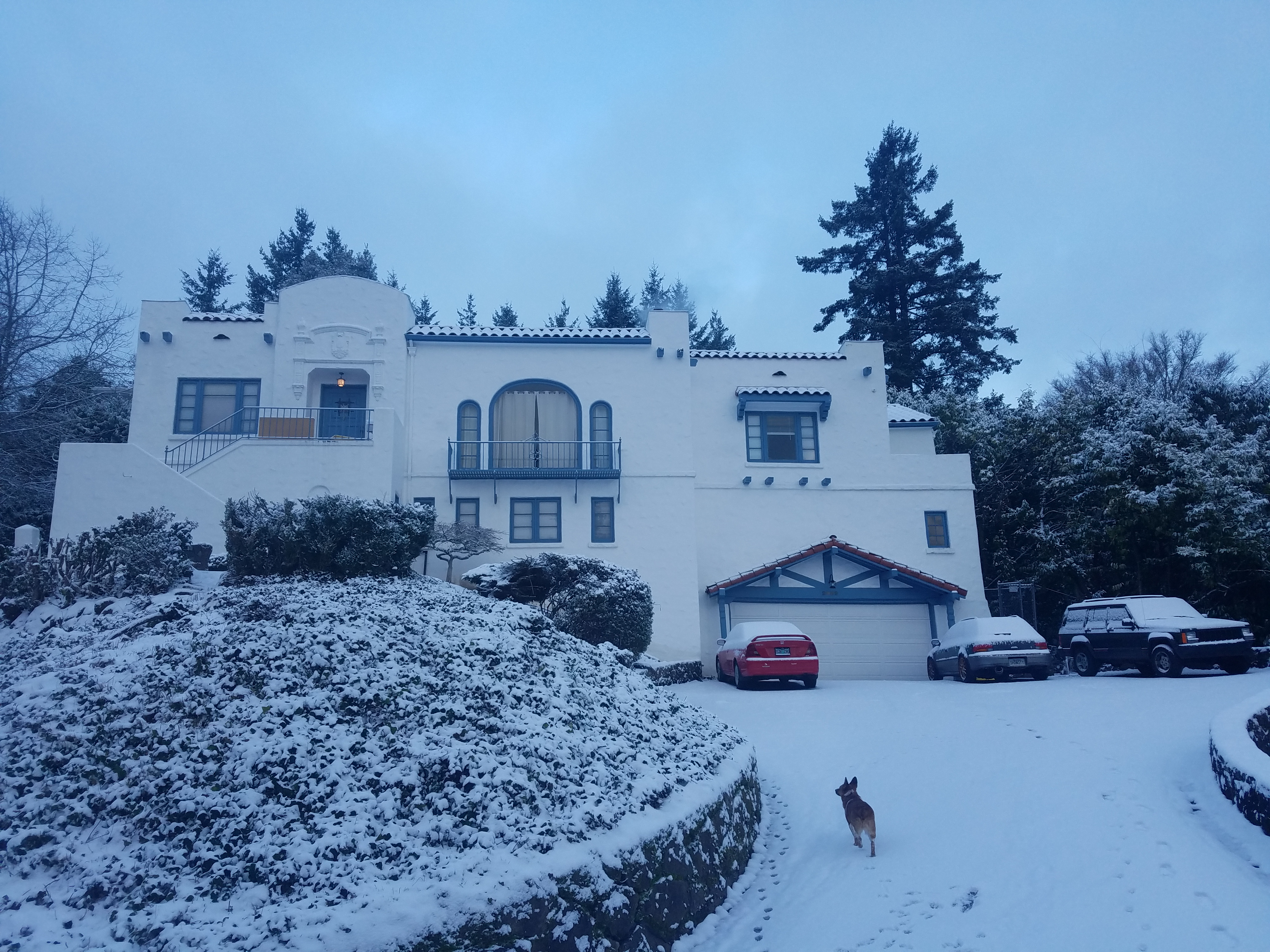 Digman Zidell House in winter as viewed from the south